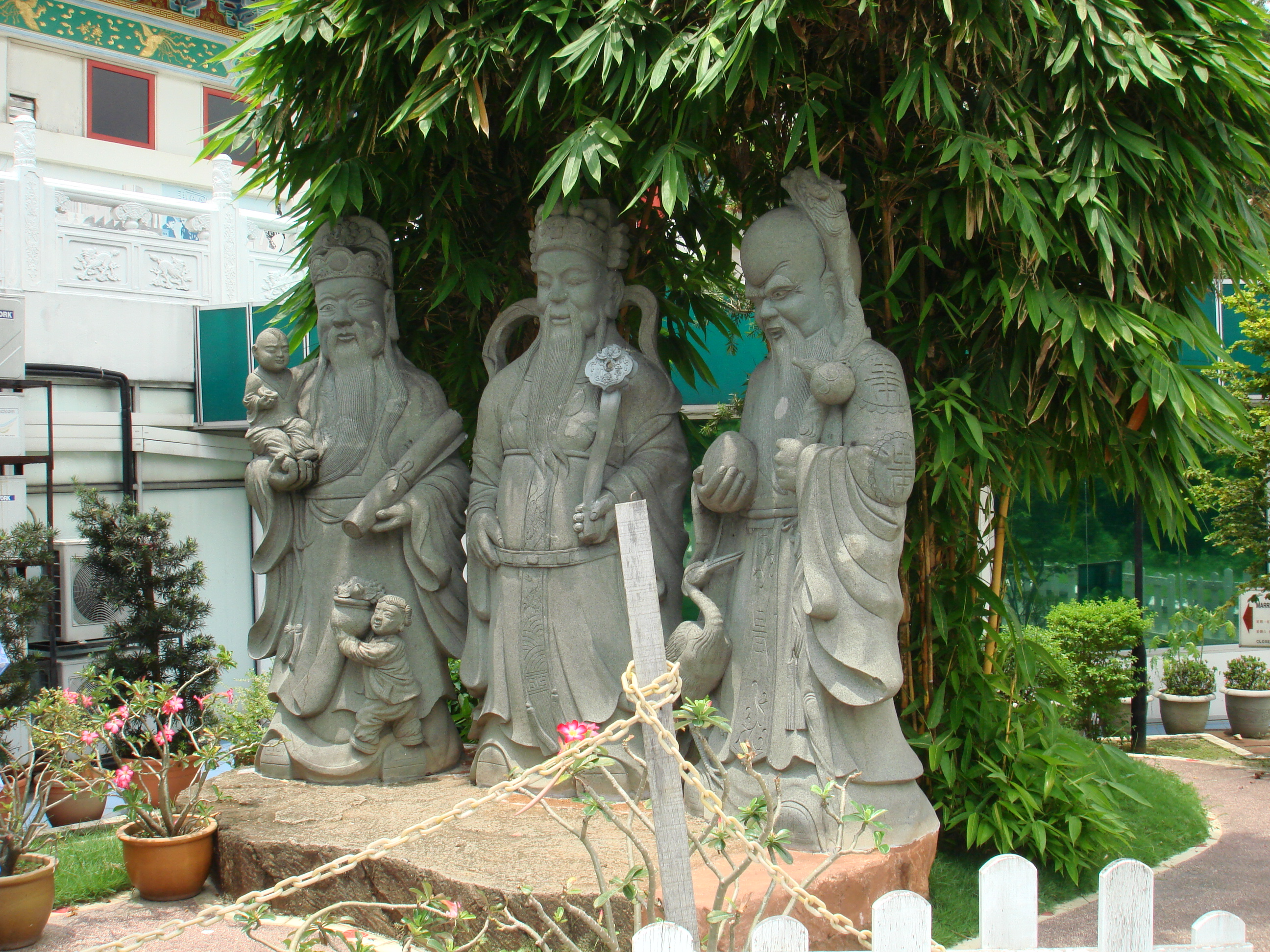 Chinese temple, Malaysia